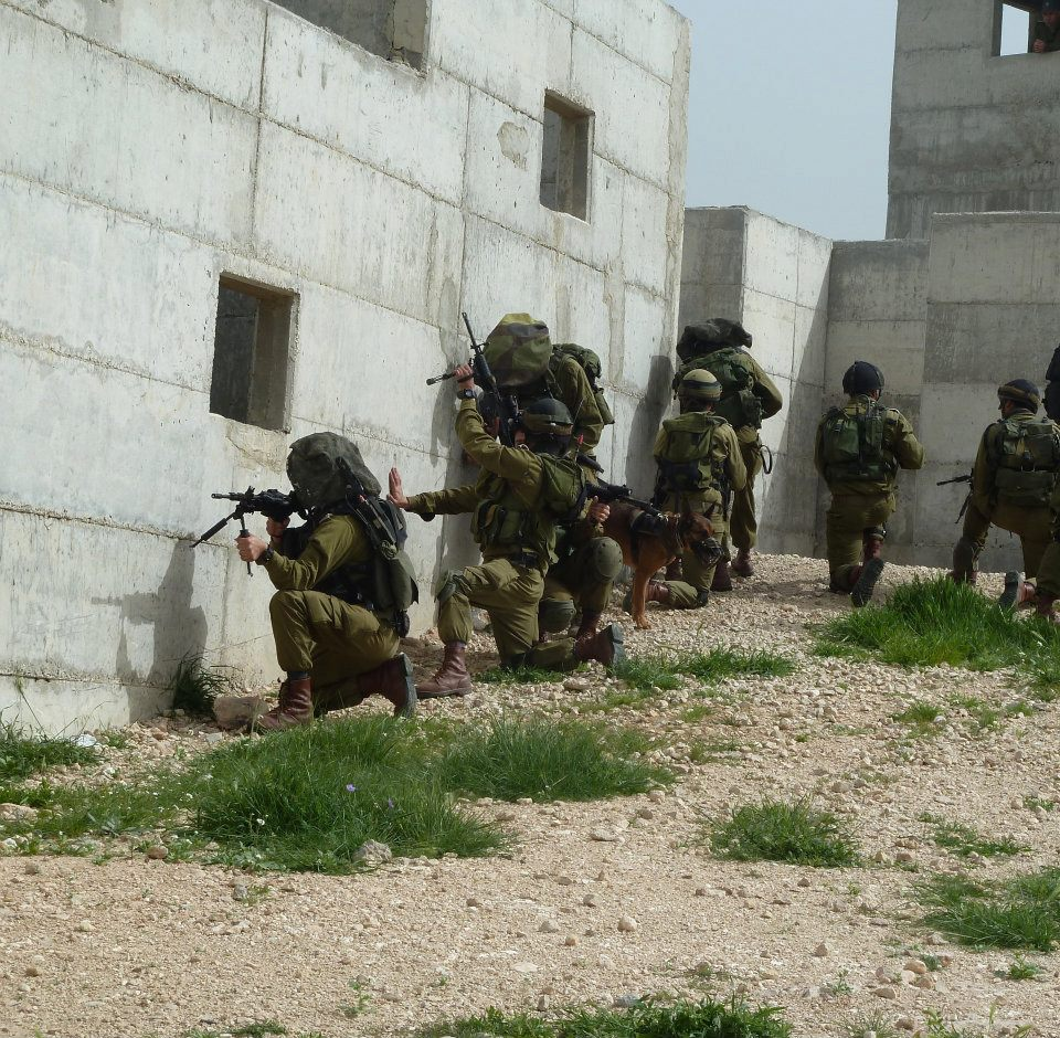 March 11, 2012 Last week, the company commanders of the Kfir Brigade conducted an exercise simulating the takeover of a hostile urban area in which terrorists are hiding. The drill is a part of a larger IDF doctrine: be as efficient as possible while fighting in urban centers by focusing on hostile targets, and hostile targets only. Read more: [ IDF Officers Practice Urban Warfare] The Israel Defense Forces Facebook The Israel Defense Forces blog Follow us on Twitter